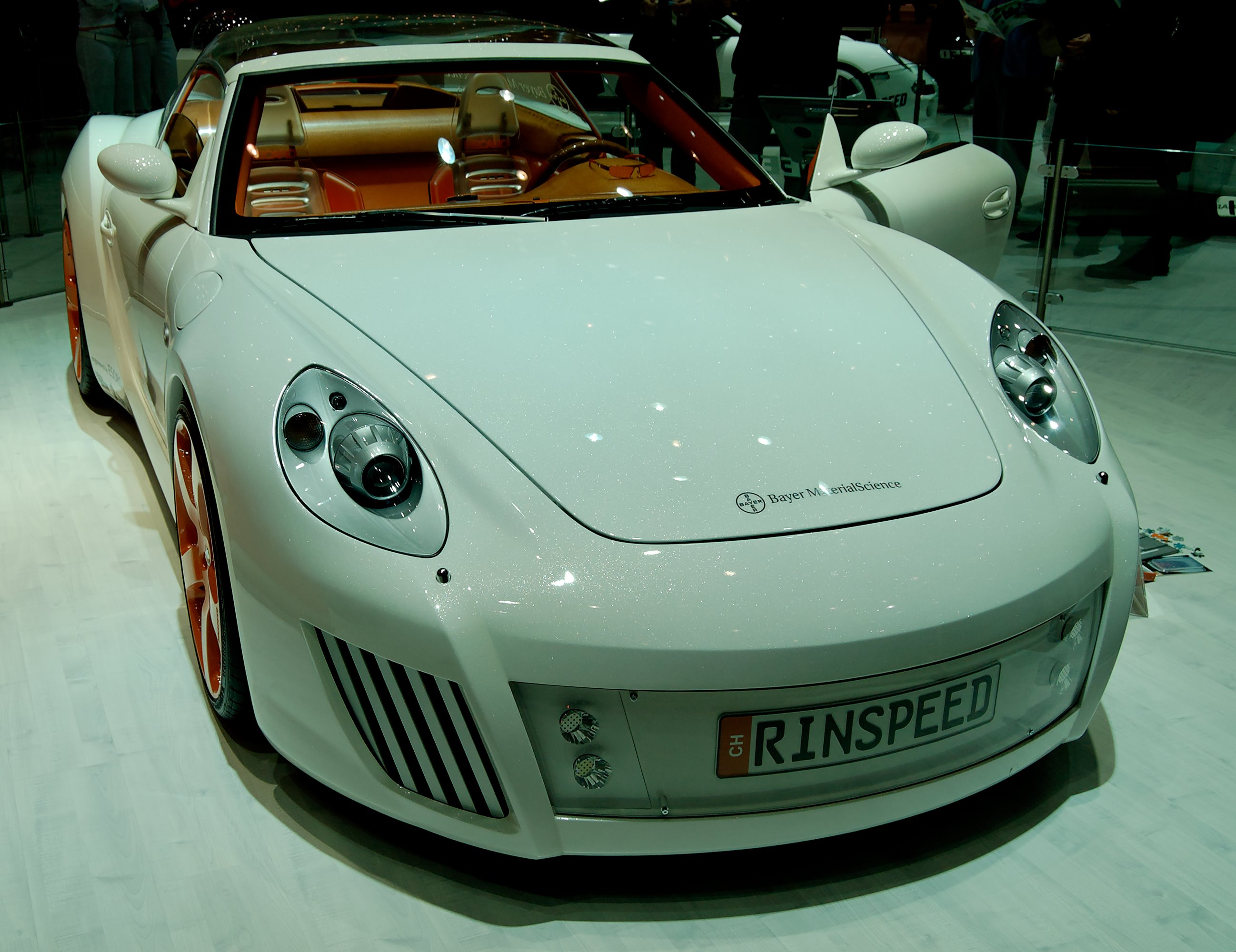 Rinspeed zaZen at the 2006 Salon International de l'Auto